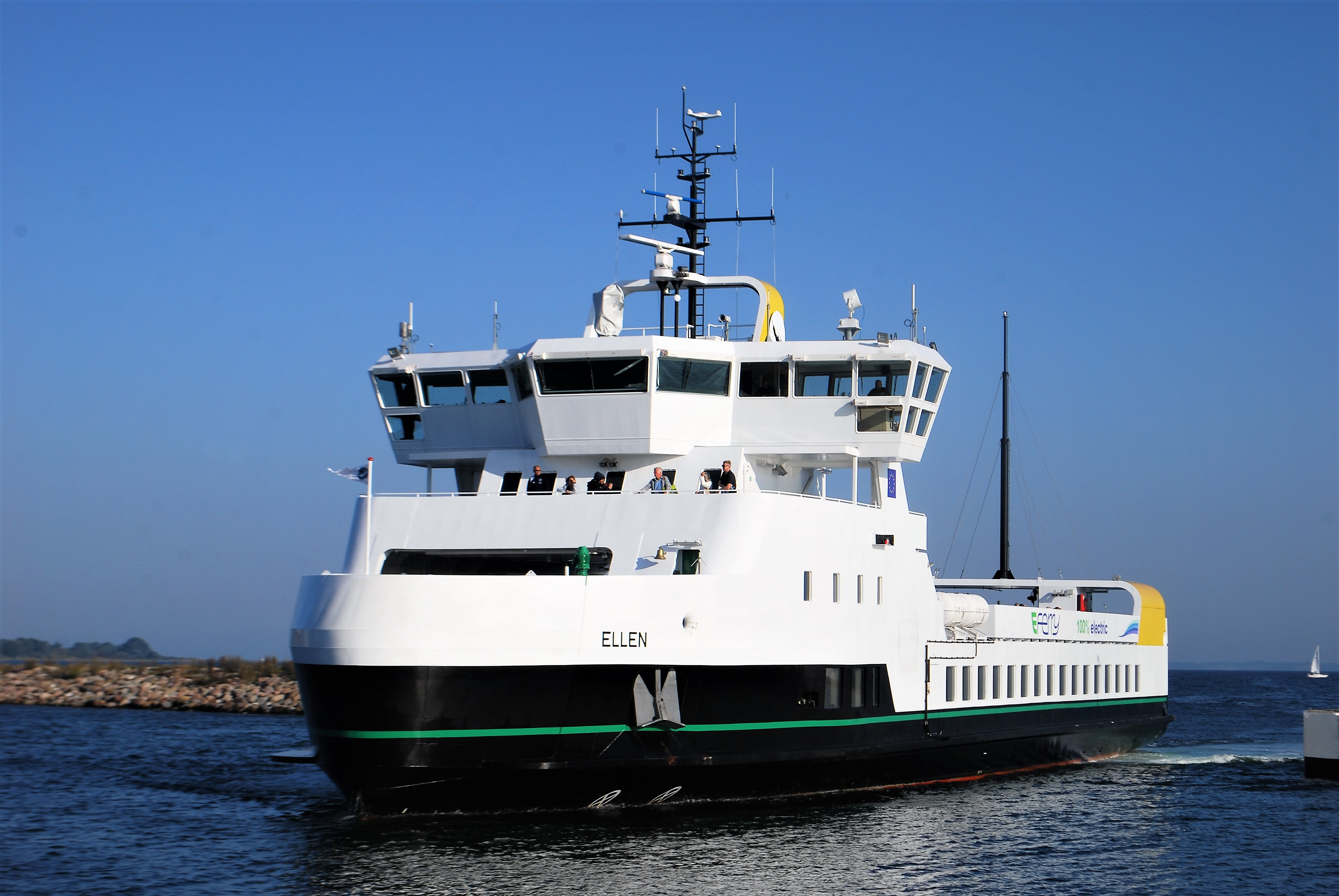 E-ferry Ellen, a pioneering electric car ferry, operated since August 2019 by Ærø Municipality between the southern Danish port of Fynshav and Søby, on the island of Ærø, Denmark.